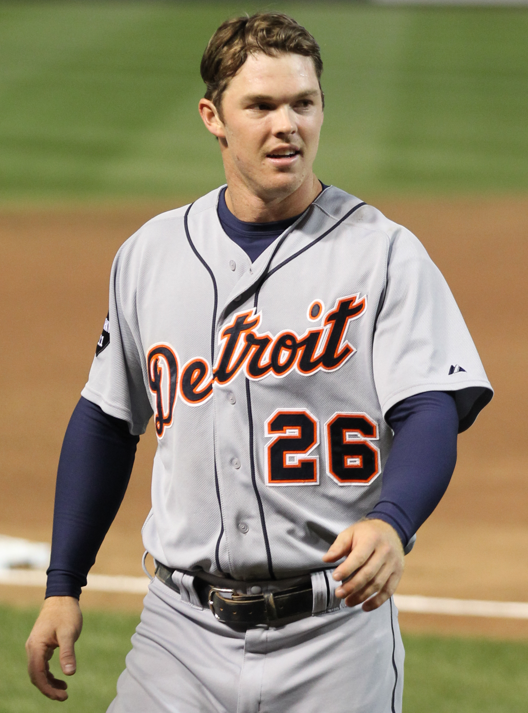 Major League Baseball player Brennan Boesch of the Detroit Tigers in a game against the Baltimore Orioles on April 7, 2011.